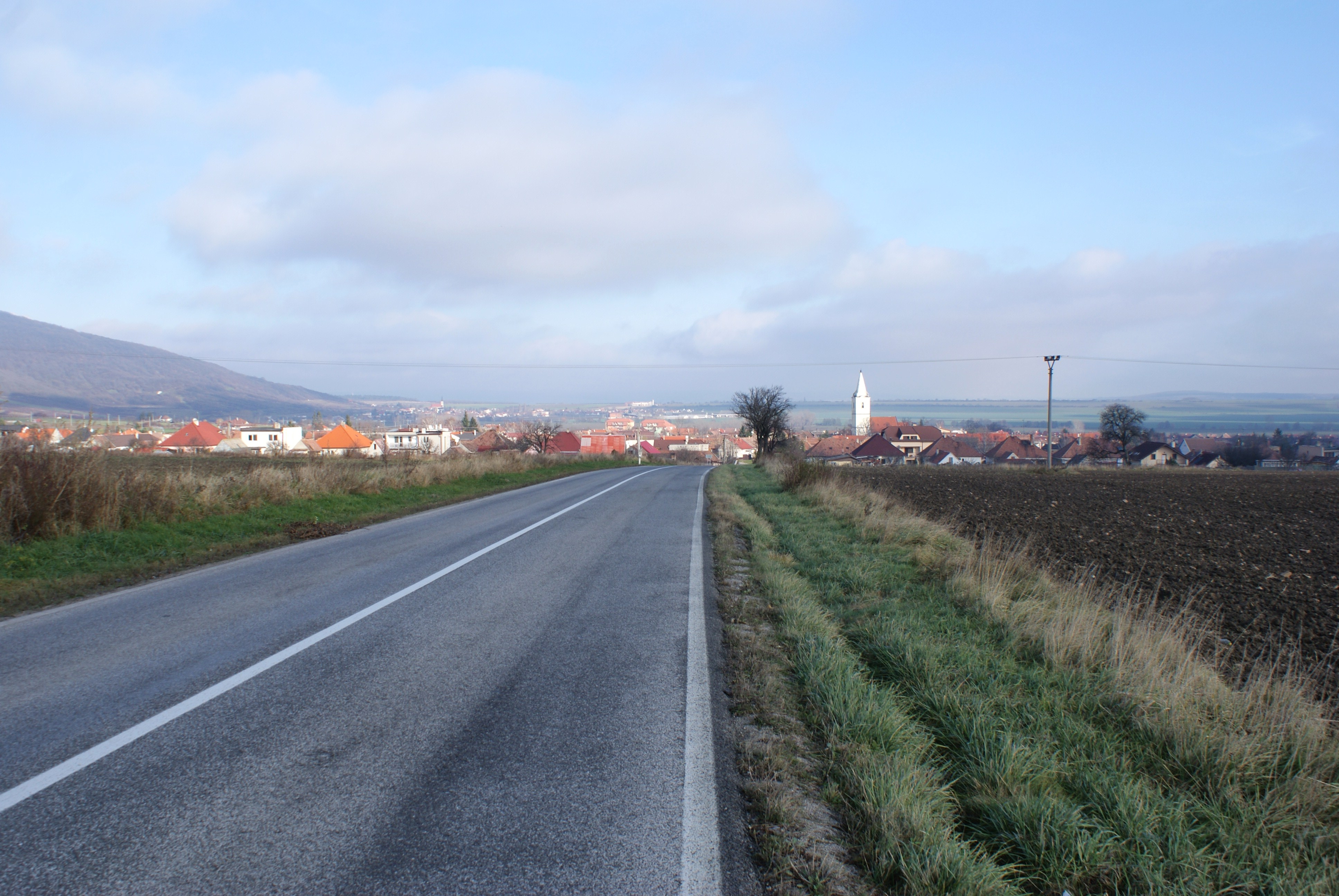 Dolné Orešany, a village in Trnava district, Slovakia, seen from a distance.